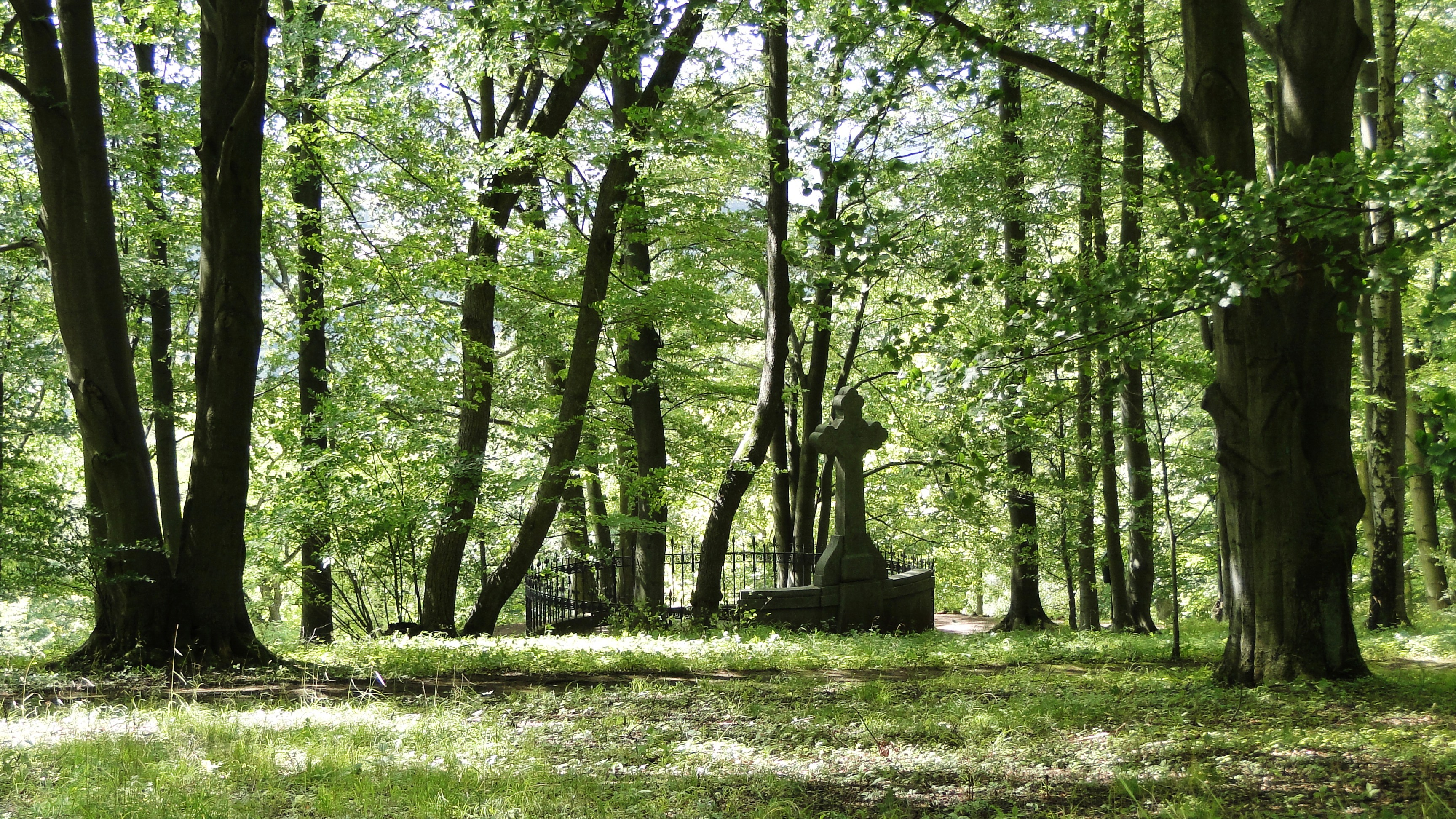 Burial site of the last Duke and Duchess of Saxe-Meiningen at Altenstein, Thuringia, view from the direction of the Fohlenwiese